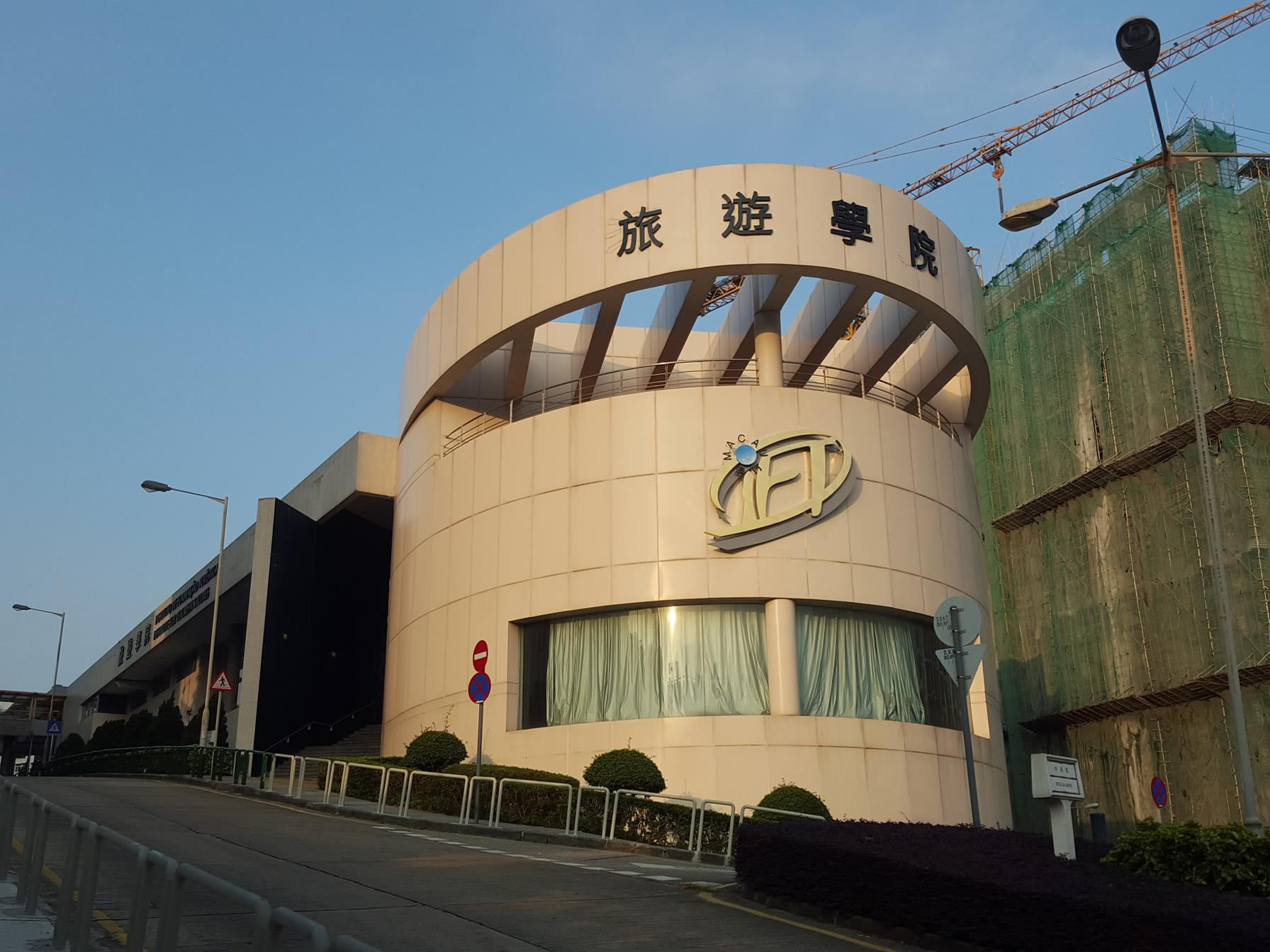 New Taipa Campus of IFT